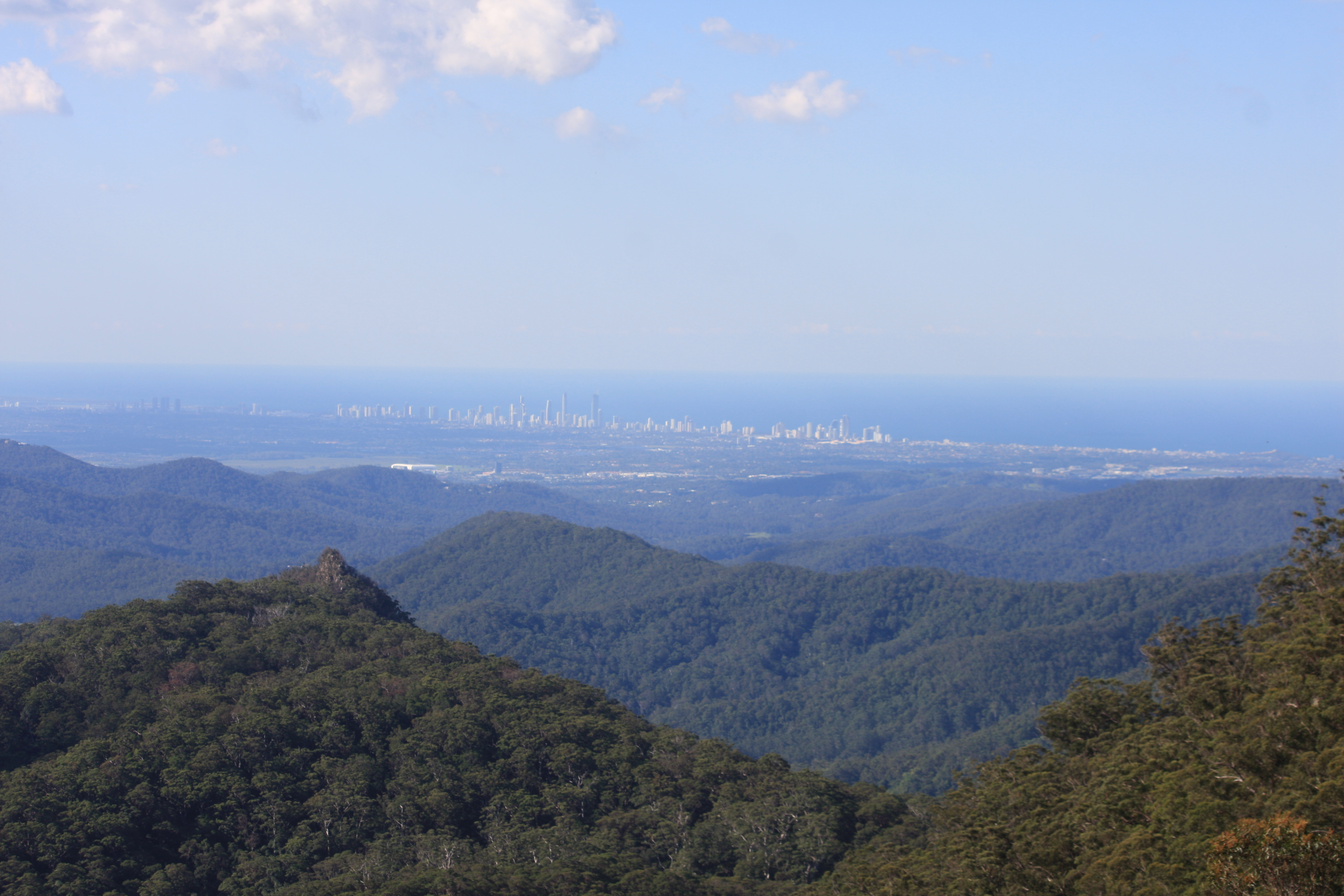 View of the Gold Coast, Queensland - Australia, seen from springbrook National Park, April 21 2014.